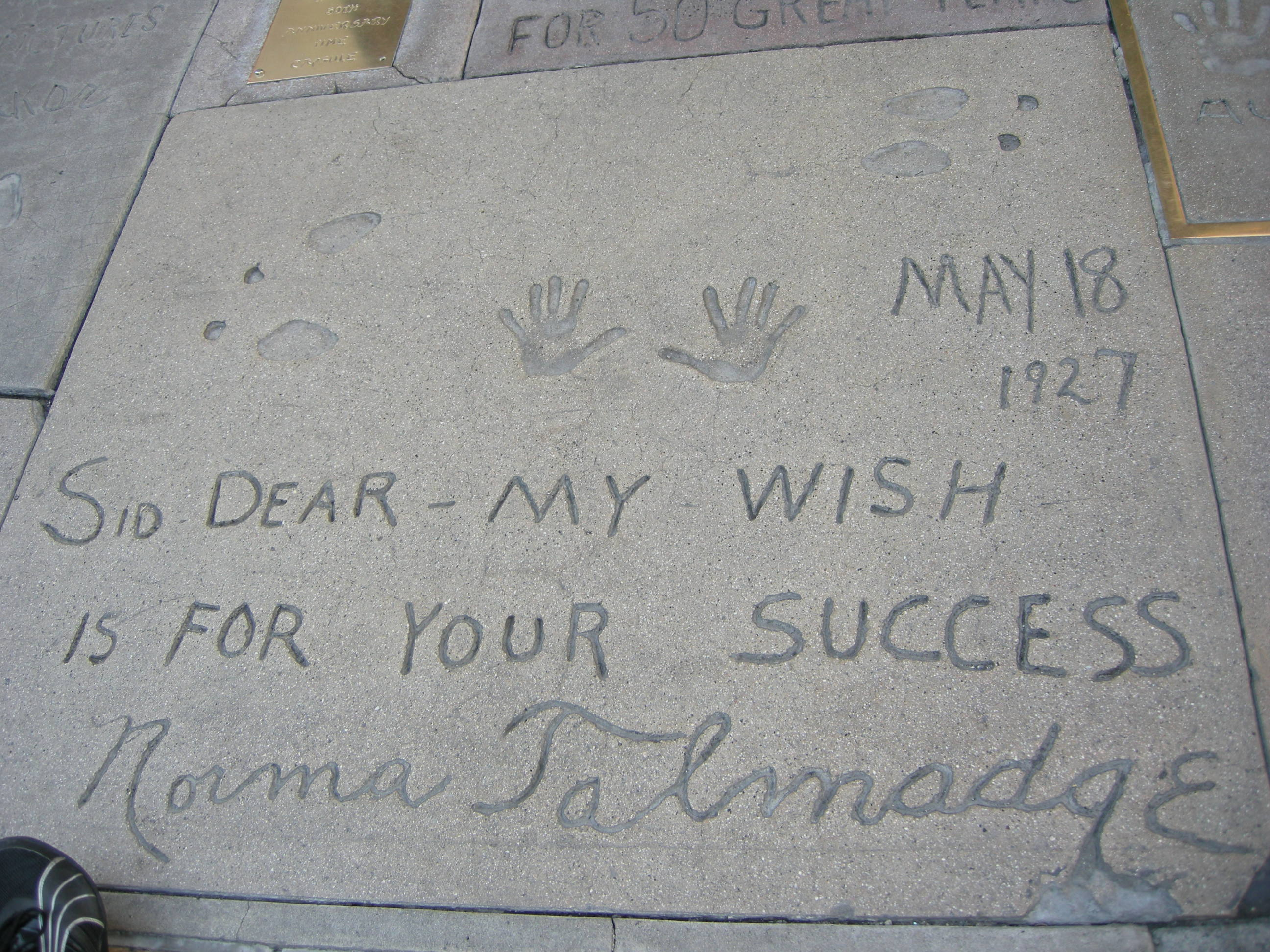 Grauman's Chinese Theatre, norma talmadge